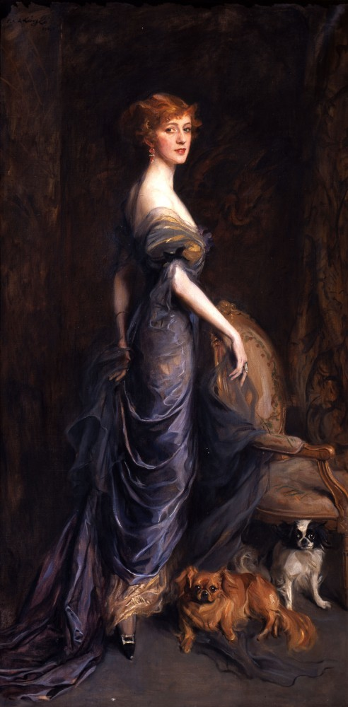 Portrait of Mrs. George Owen Sandys